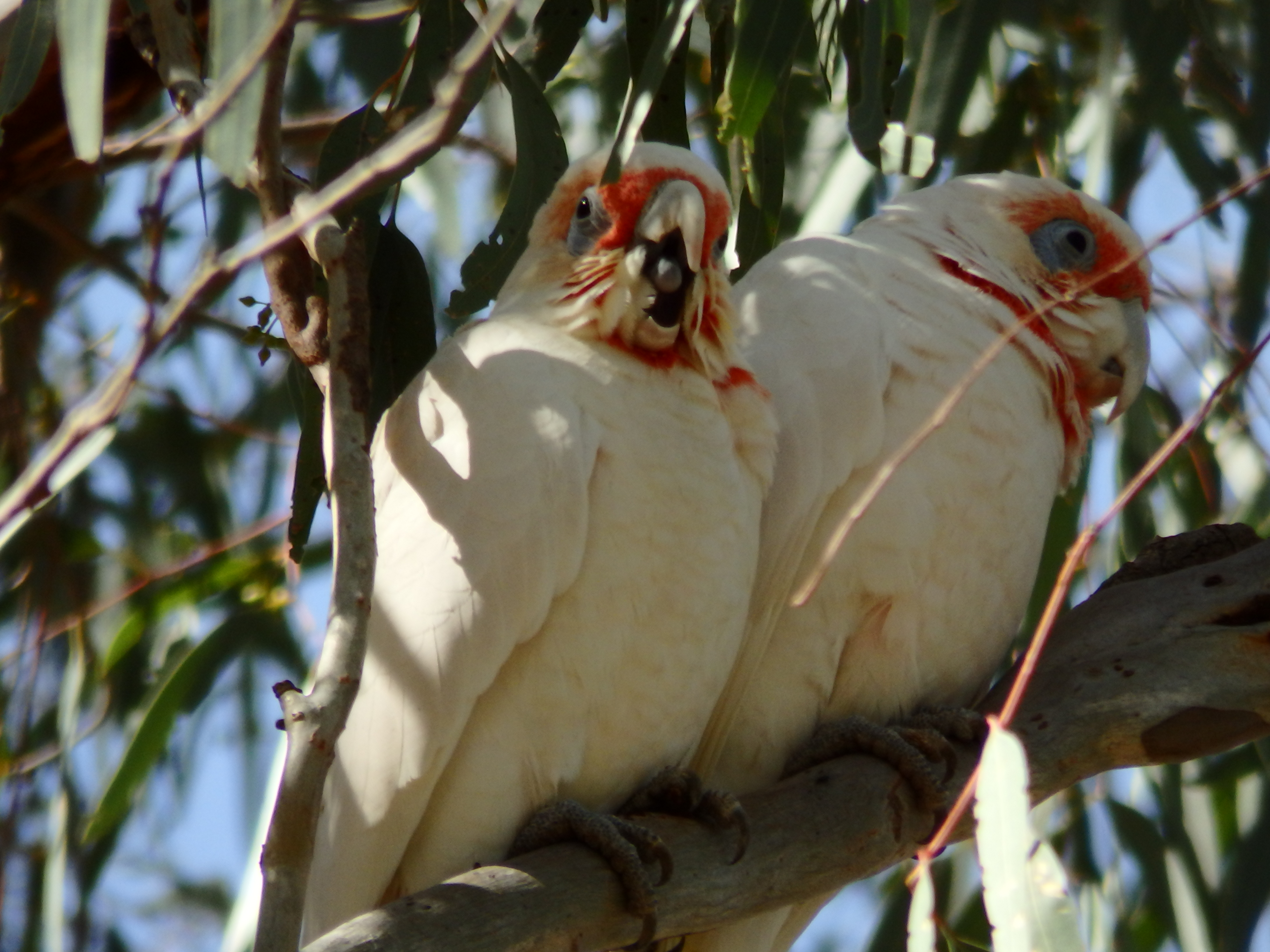 Long-billed Corellas Cacatua tenuirostris in a Red River Gum at Barmah National Park. Flocks of hundreds of these birds, as well as Little Corellas, fly around noisily, particularly in the early morn, and at sunset. The Barmah National Park is an internationally recognised wetland, listed under the Ramsar Convention, with international migratory birds needing access to these wetlands.